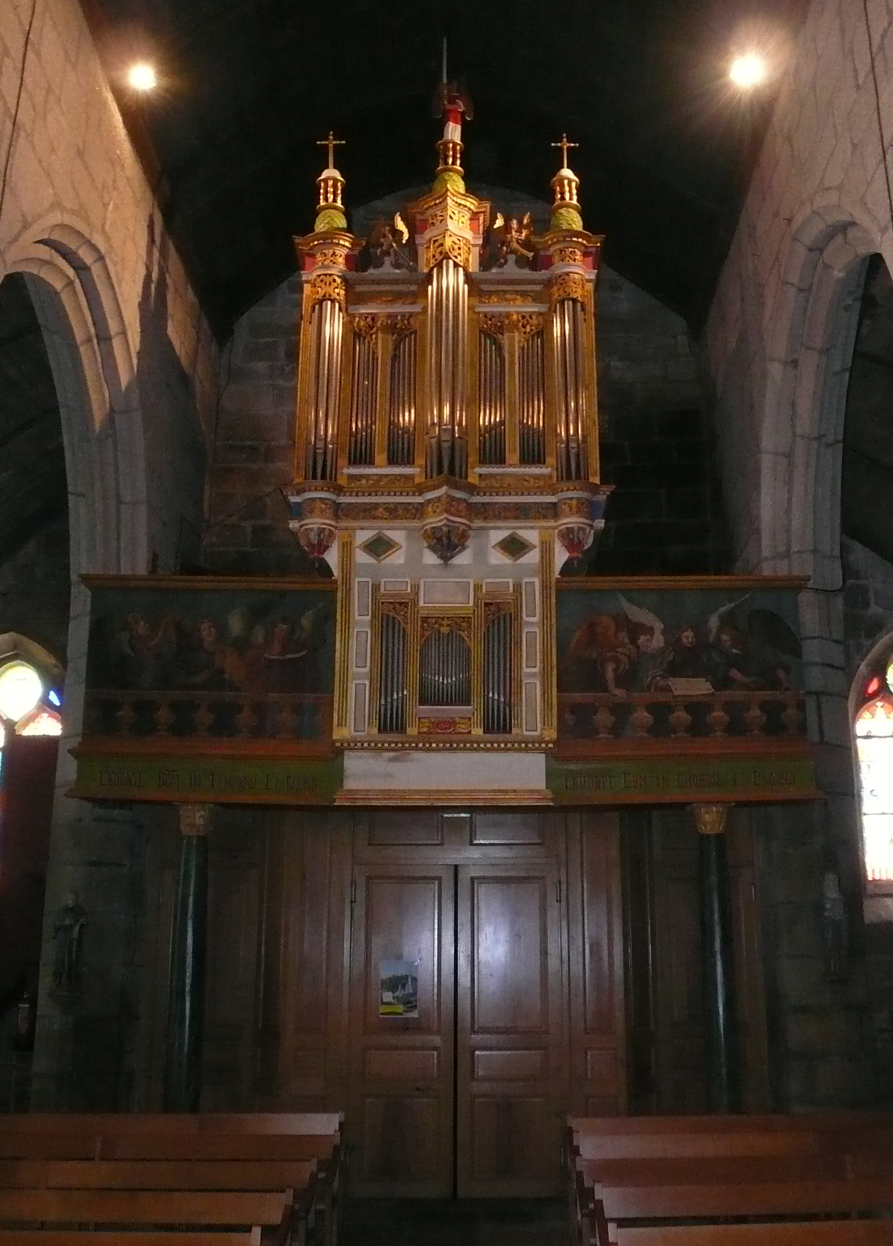 Organ into Saint Gwenael's church in Ergué-Gabéric, Finistère, Brittany, France. Made by Thomas & Toussaint Dallam, around 1680.